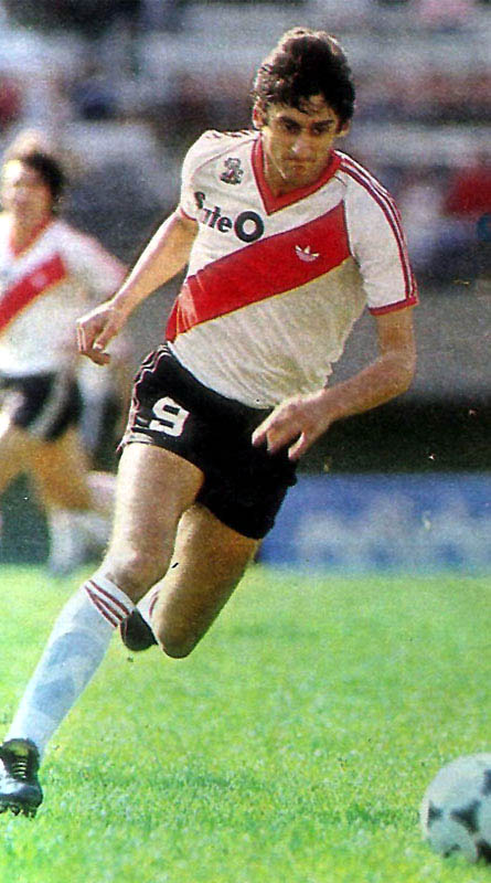 Enzo Francescoli playing for River Plate.